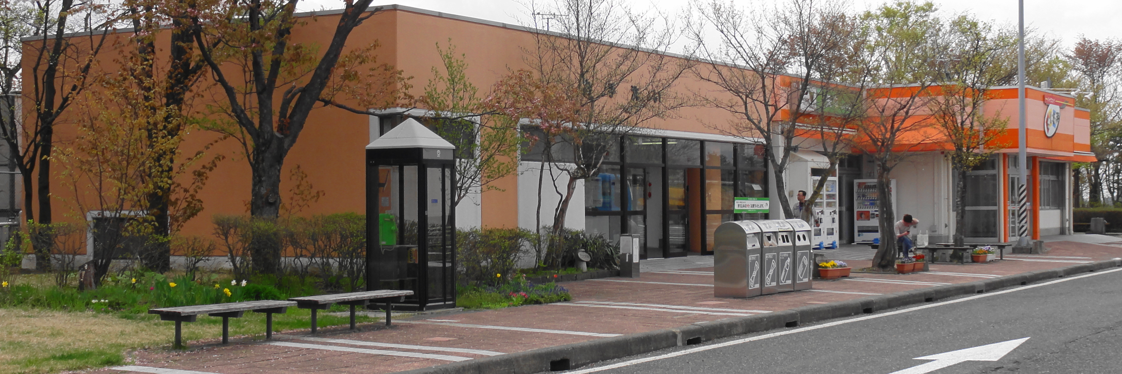 Yahaba Parking Area,Iwate prefecture, Japan